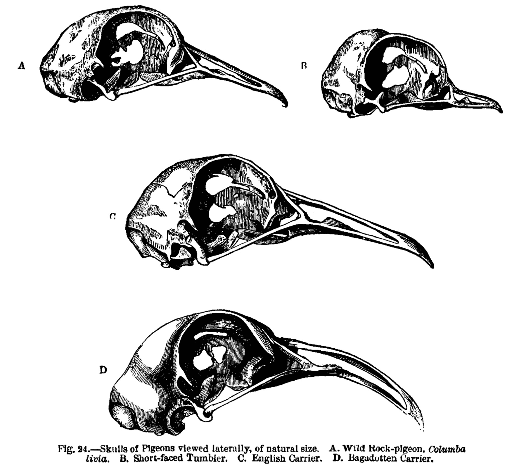 Pigeon skulls, as drawn by Darwin